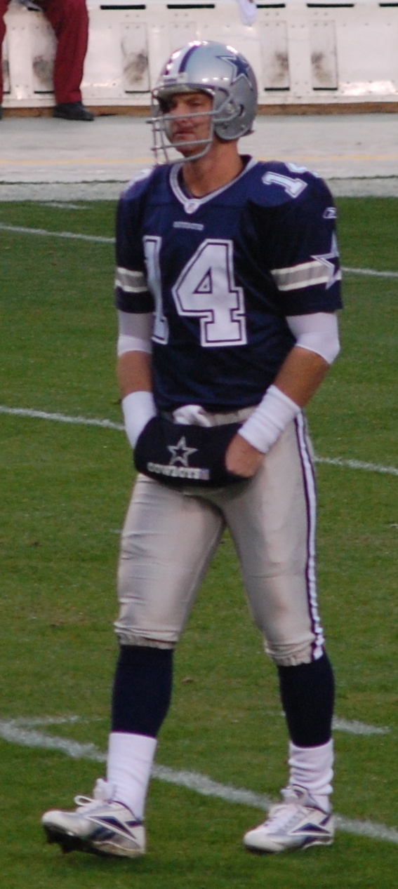 Picture of Brad Johnson before Washington Redskins vs. Dallas Cowboys, 12/30/2007